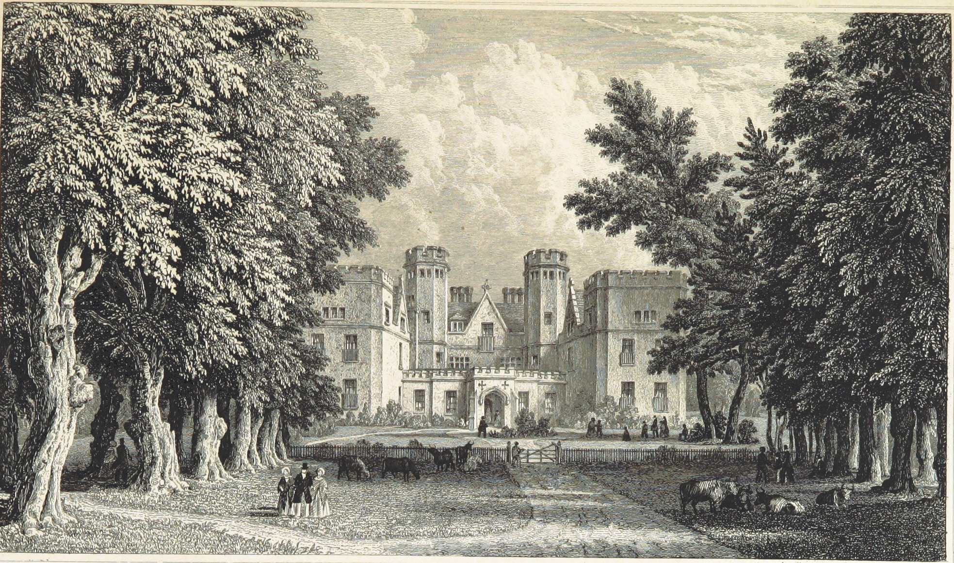 Grove Place in Hampshire is a Grade I listed building. Originally a country house and now converted into retirement apartments, it is pictured here in the 19th century when it as used as a lunatic asylum. This image is derived from an image in a book in the public domain, uploaded to the Flickr Commons by the British Library. Details of that image follow: Image taken from page 135 of 'The Picture of Southampton, and Stranger's Hand-Book to every object of interest in the town and neighbourhood; with numerous highly-finished steel engravings ... Second and complete edition' Image taken from: Title: "The Picture of Southampton, and Stranger's Hand-Book to every object of interest in the town and neighbourhood; with numerous highly-finished steel engravings ... Second and complete edition" Author: BRANNON, Philip. Shelfmark: "British Library HMNTS 1303.i.10." Page: 135 Place of Publishing: Southampton Date of Publishing: 1850 Publisher: Brannon Issuance: monographic Identifier: 000455612